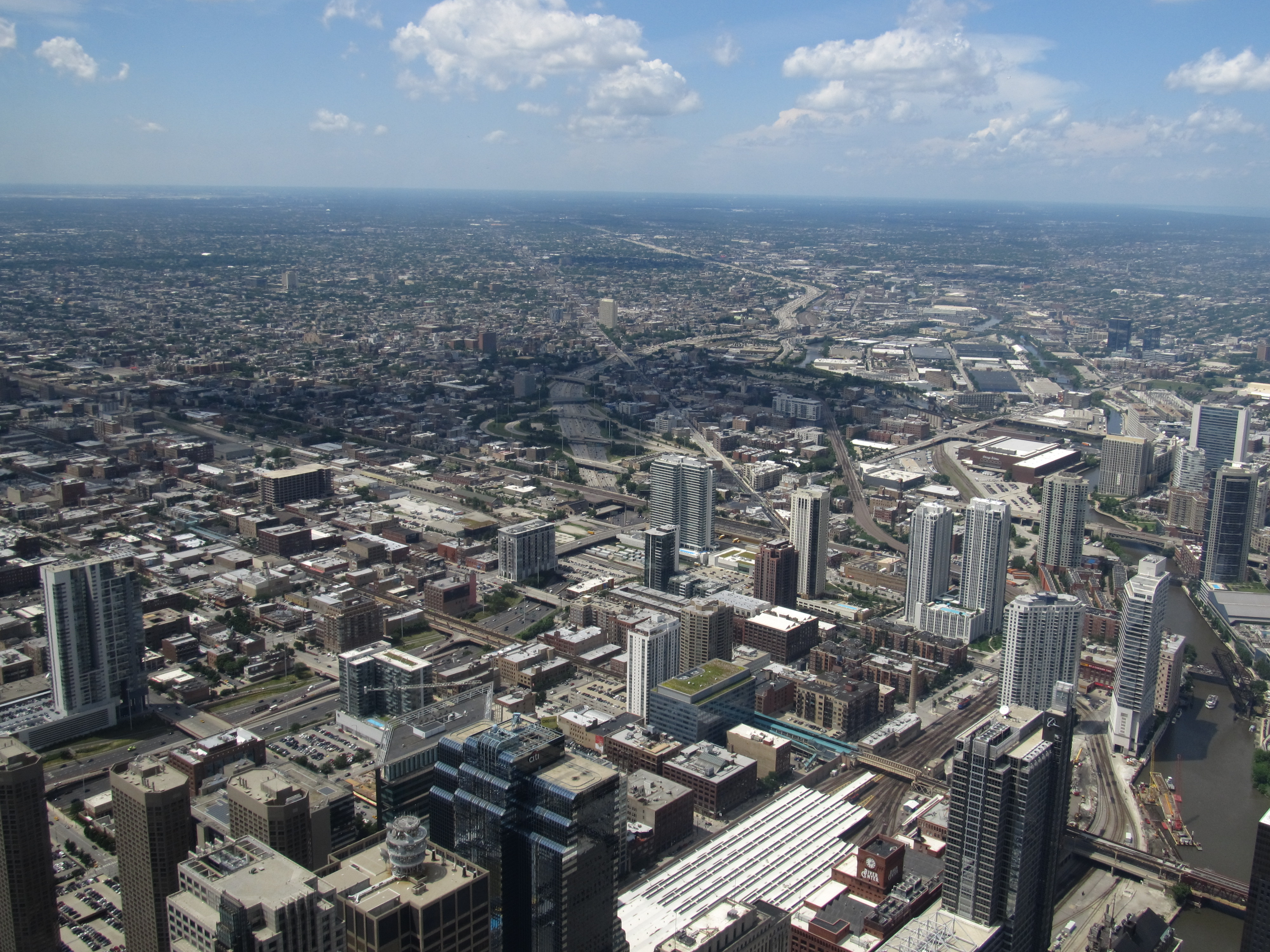 Chicago is the third most populous city in the United States, after New York City and Los Angeles. With 2.7 million residents, it is the most populous city in both the U.S. state of Illinois and the American Midwest. Its metropolitan area, sometimes called Chicagoland, is home to 9.5 million people and is the third-largest in the United States. Chicago is the seat of Cook County, although a small part of the city extends into DuPage County. Chicago was incorporated as a city in 1837, near a portage between the Great Lakes and the Mississippi River watershed, and experienced rapid growth in the mid-nineteenth century. Today, the city is an international hub for finance, commerce, industry, technology, telecommunications, and transportation, with O'Hare International Airport being the second-busiest airport in the world in terms of traffic movements. In 2010, Chicago was listed as an alpha+ global city by the Globalization and World Cities Research Network, and ranks seventh in the world in the 2012 Global Cities Index. As of 2012, Chicago had the third largest gross metropolitan product in the United States, after the New York City and Los Angeles metropolitan areas, at a sum of US$571 billion. In 2012, Chicago hosted 46.37 million international and domestic visitors, an overall visitation record. Chicago's culture includes contributions to the visual arts, novels, film, theater, especially improvisational comedy, and music, particularly blues, soul, and house music. The city has many nicknames, which reflect the impressions and opinions about historical and contemporary Chicago. The best-known include the "Windy City" and "Second City." Chicago has professional sports teams in each of the major professional leagues.